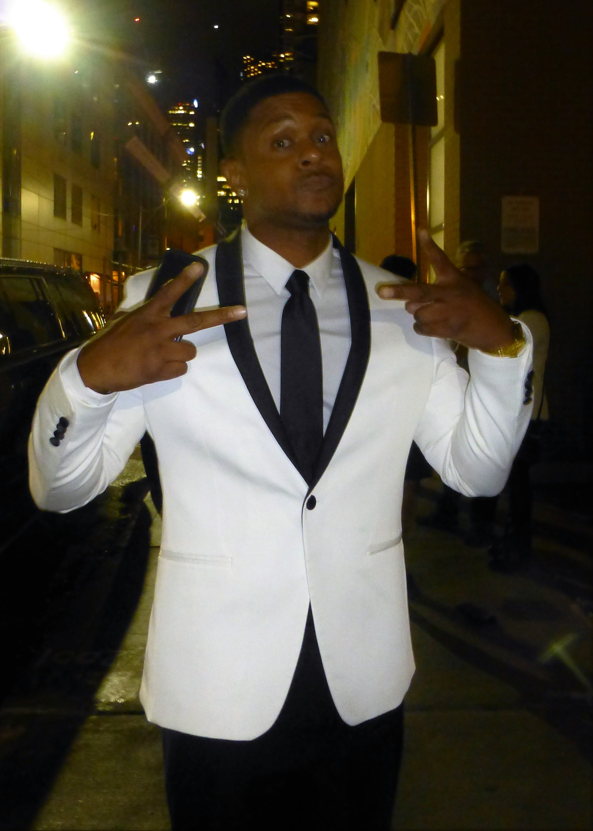 Pooch Hall at the premiere of The Bleeder, 2016 Toronto Film Festival